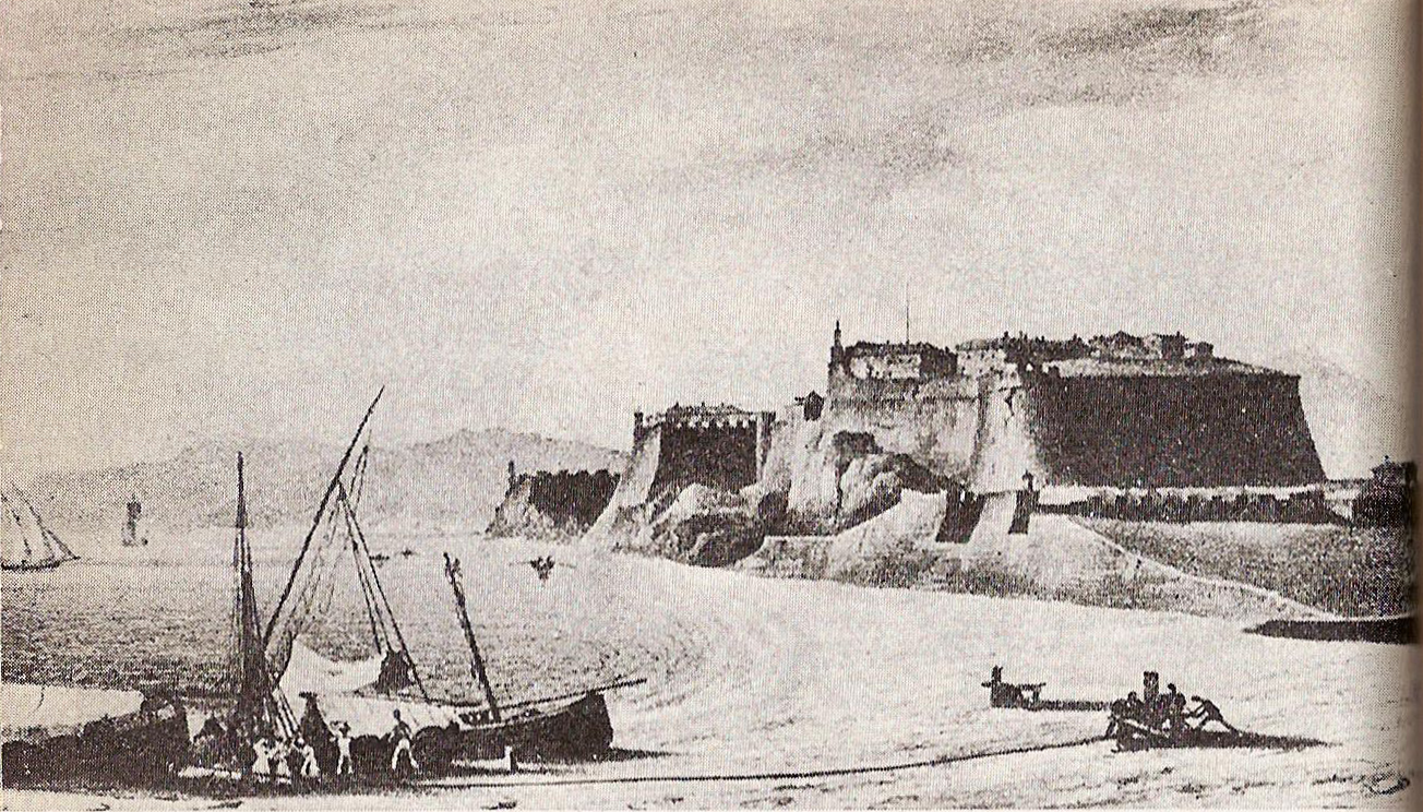 Giuseppe Mazzini was jailed in here. (Priamar Fortress)